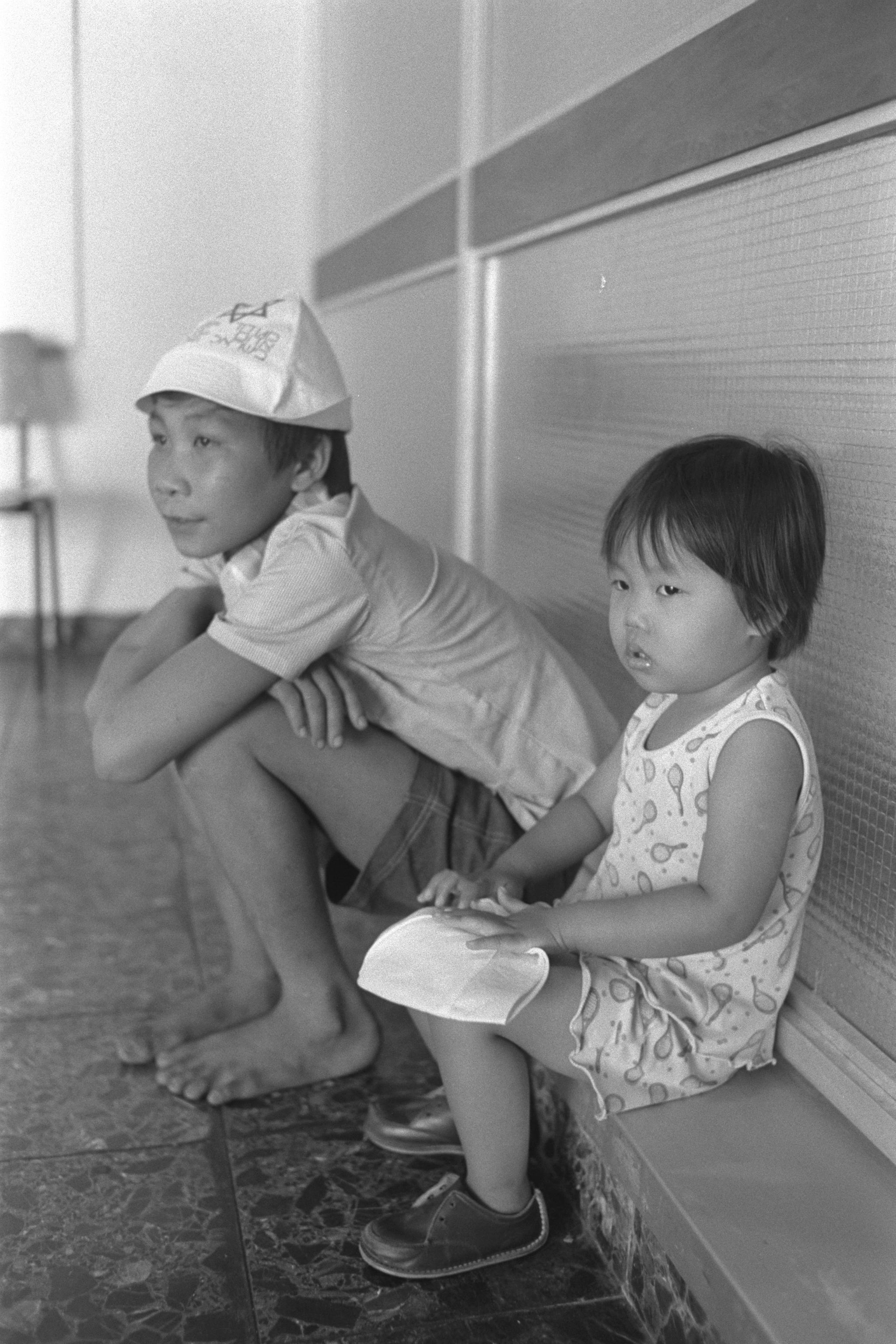 Vietnamese refugees watching the activity at the Ben Gurion Airport terminal, new immigrants.